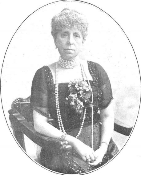 Cristina de Habsburgo, Queen of Spain